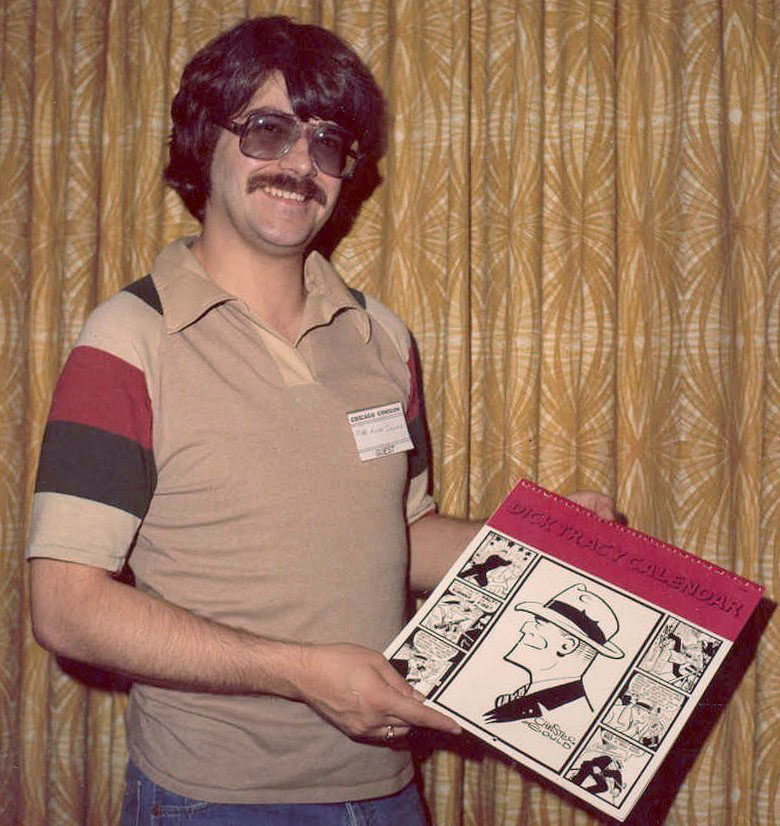 Photo of Max Allan Collins.